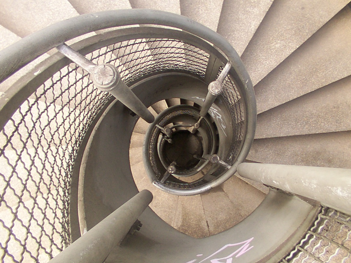 Spiral staircase in Cologne GermanyOoh goodness.